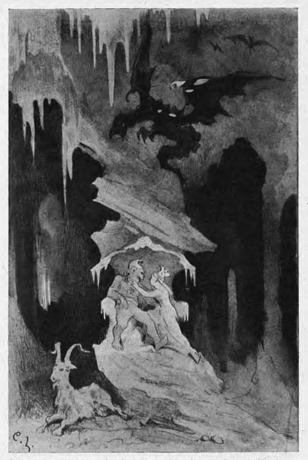 Illustration by Carl Larsson of the book "Folksagor" by Asbjörnsen and Moe, Stockholm 1927